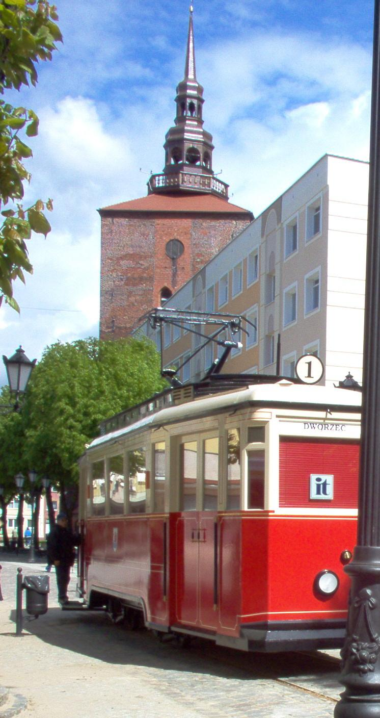 A period tram in the Nowobramska-street, Słupsk, Poland